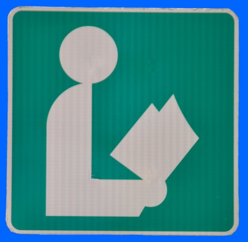 Standard public street sign used in the US to point the way to public libraries